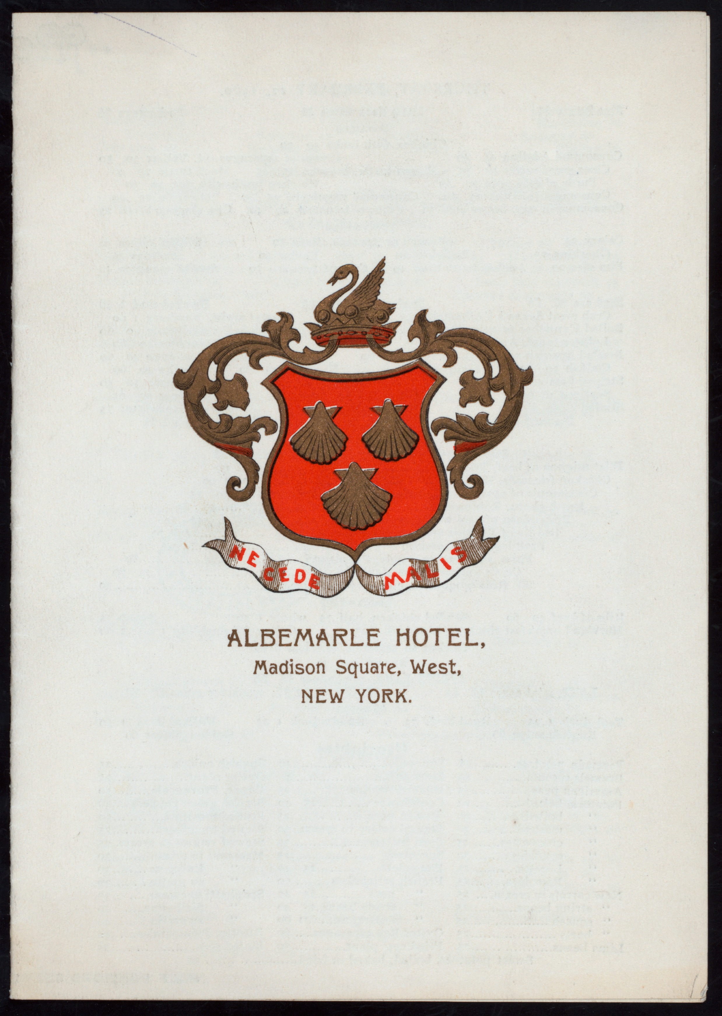 A LA CARTE PRICED MENU; HOTEL SEAL ON COVER